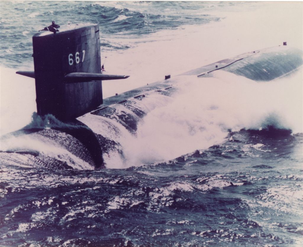 United States Navy attack submarine , possibly on sea trials off New England